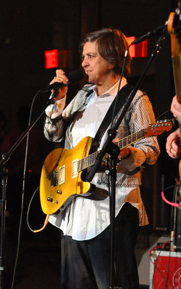 The Raincoats with Kathleen Hanna at The Museum of Modern Art, November 20, 2010